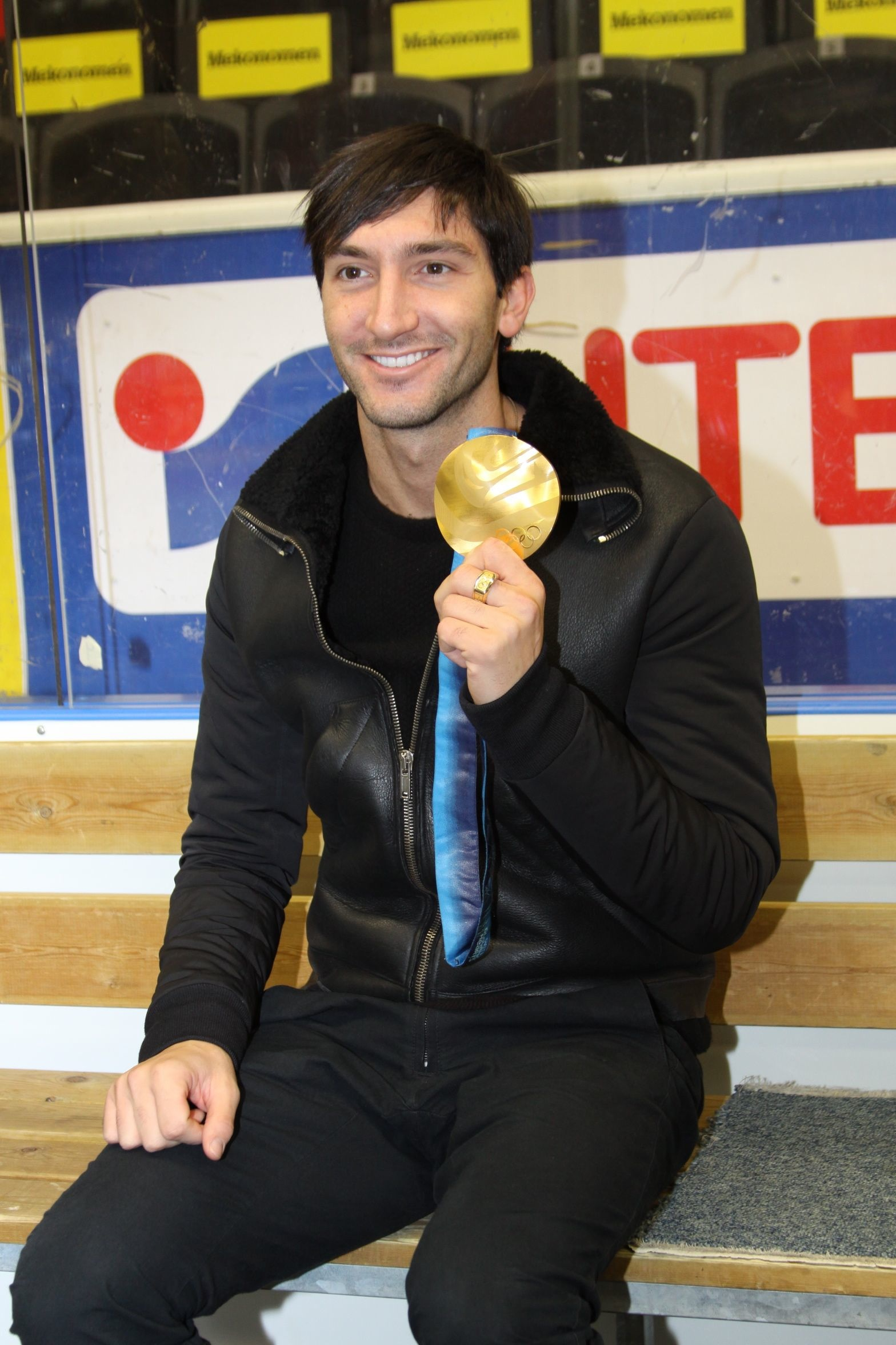 On April 10, 2012 Olympic Gold Medalist and State Department Sports Envoy Evan Lysacek visited Södertälje in conjunction with SSK, Södertälje kommun and Sports Without Borders to hold a clinic for aspiring skaters and to encourage and inspire them to go for the gold!